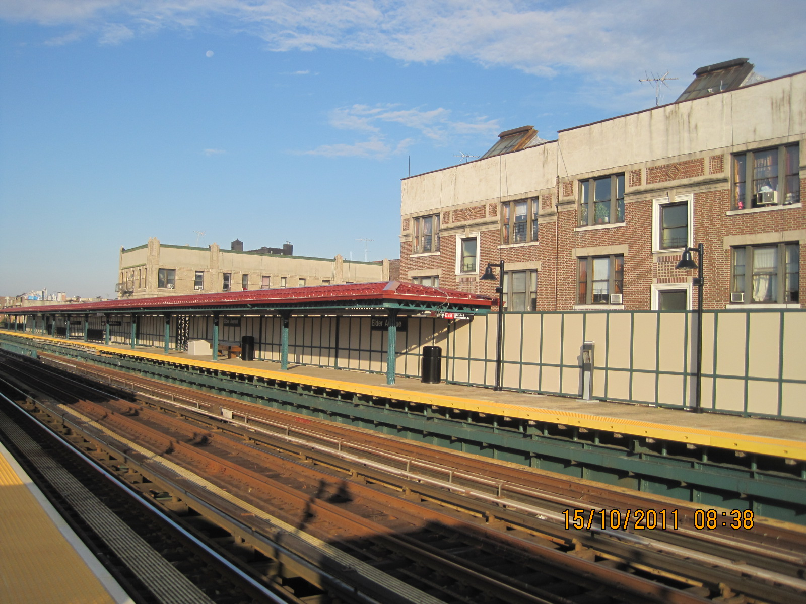 6 train service resumed to Elder Av. and St. Lawrence Av. on Oct. 16, 2011, after it had been suspended for station rehabilitation. This photo shows a rehabilitated platform at Elder Av. Photo by Metropolitan Transportation Authority / Miguel Collado.